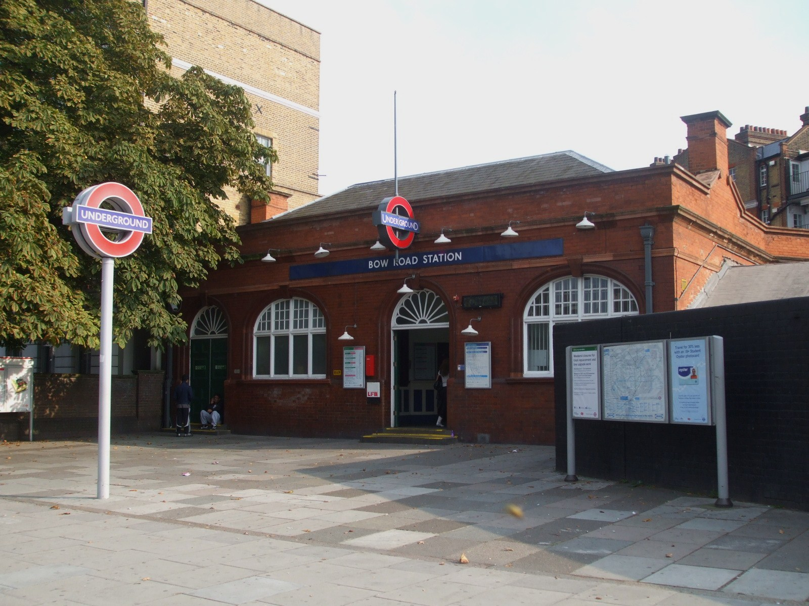 Bow Road tube station building